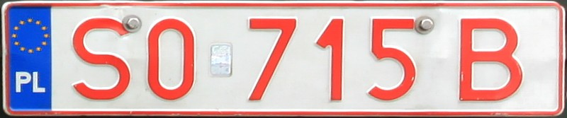 Polish testing registration plate (series since 2006). S - Silesian Voivodeship.